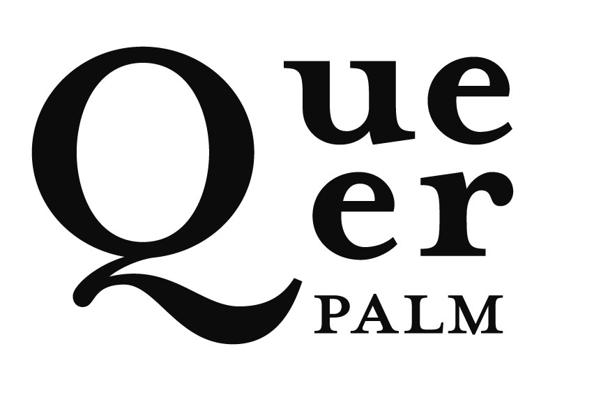 Queer Palm official logo